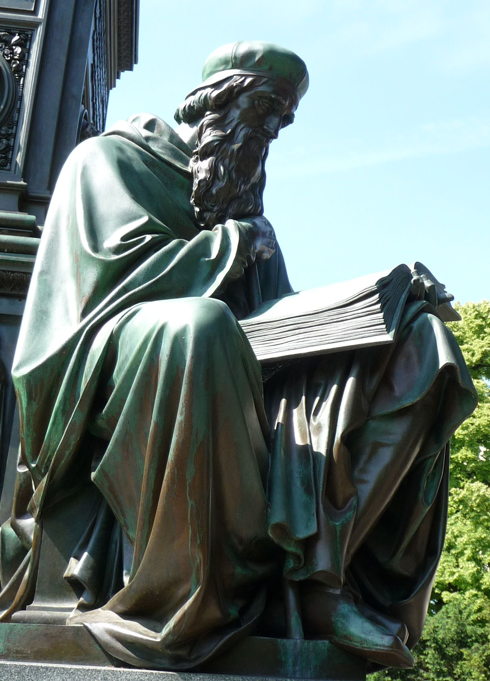 Lutherdenkmal (Worms): John Wycliffe